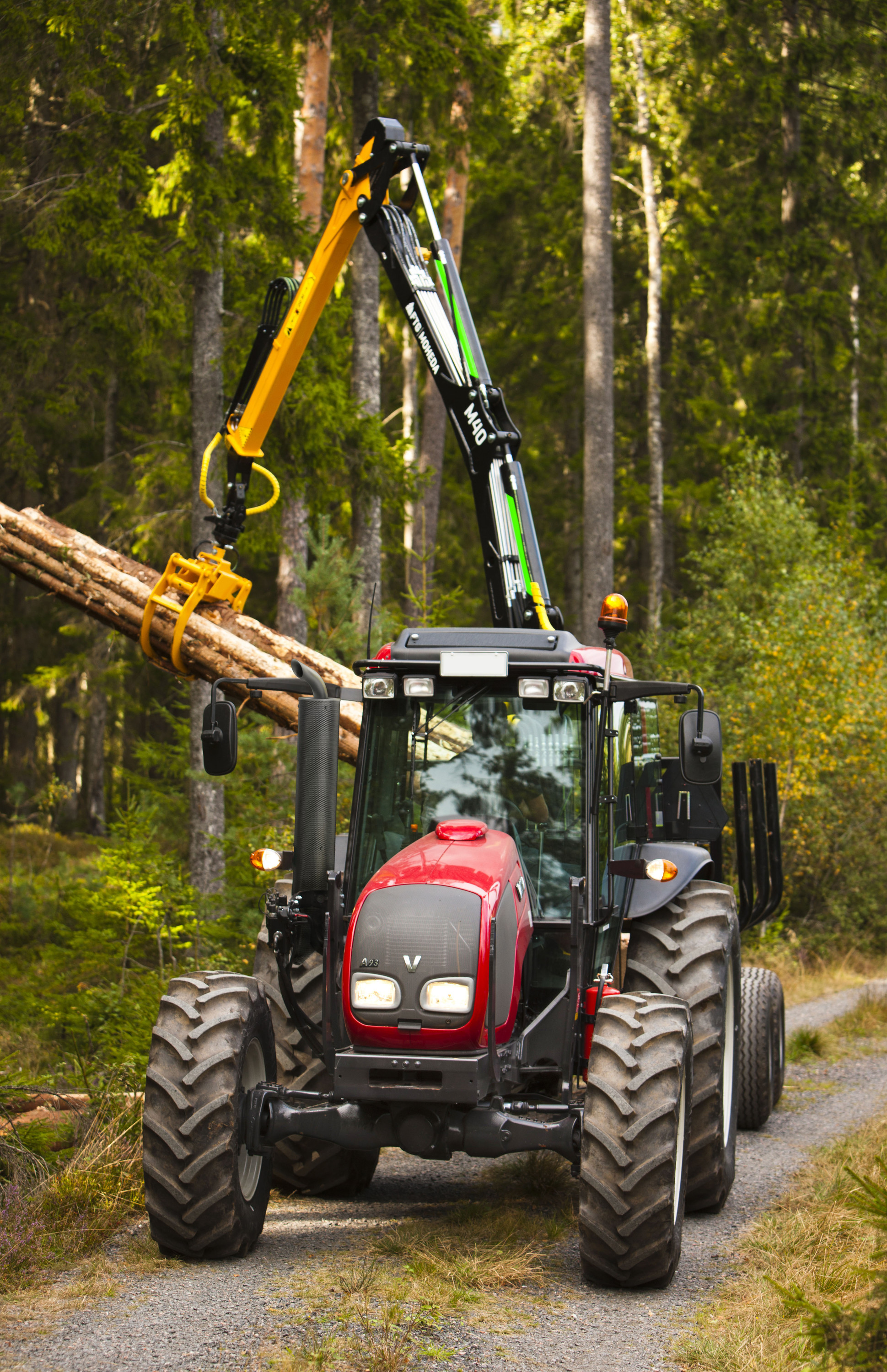 Valtra A Series is a compact three-cylinder tractor, which is also suitable for forestry work.